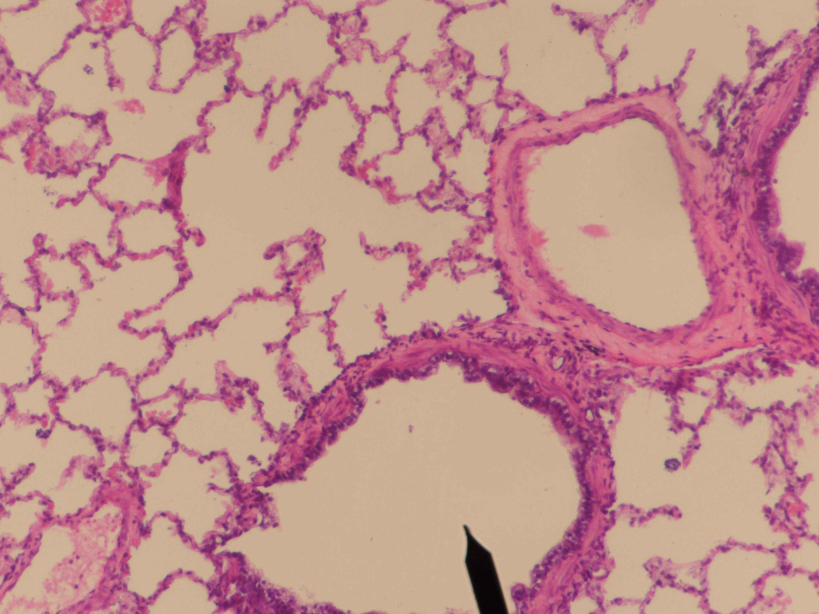 Author's own creation. Human cross sectioanal view of a terminal\tertiary bronchus. A digital camera shot through a microscope.